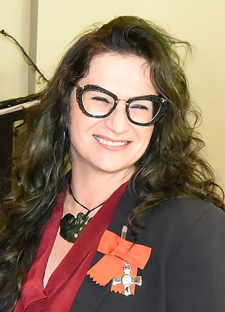 Dr Fiona Pardington, of Auckland, after her investiture as MNZM, for services to photography, on 16 August 2017